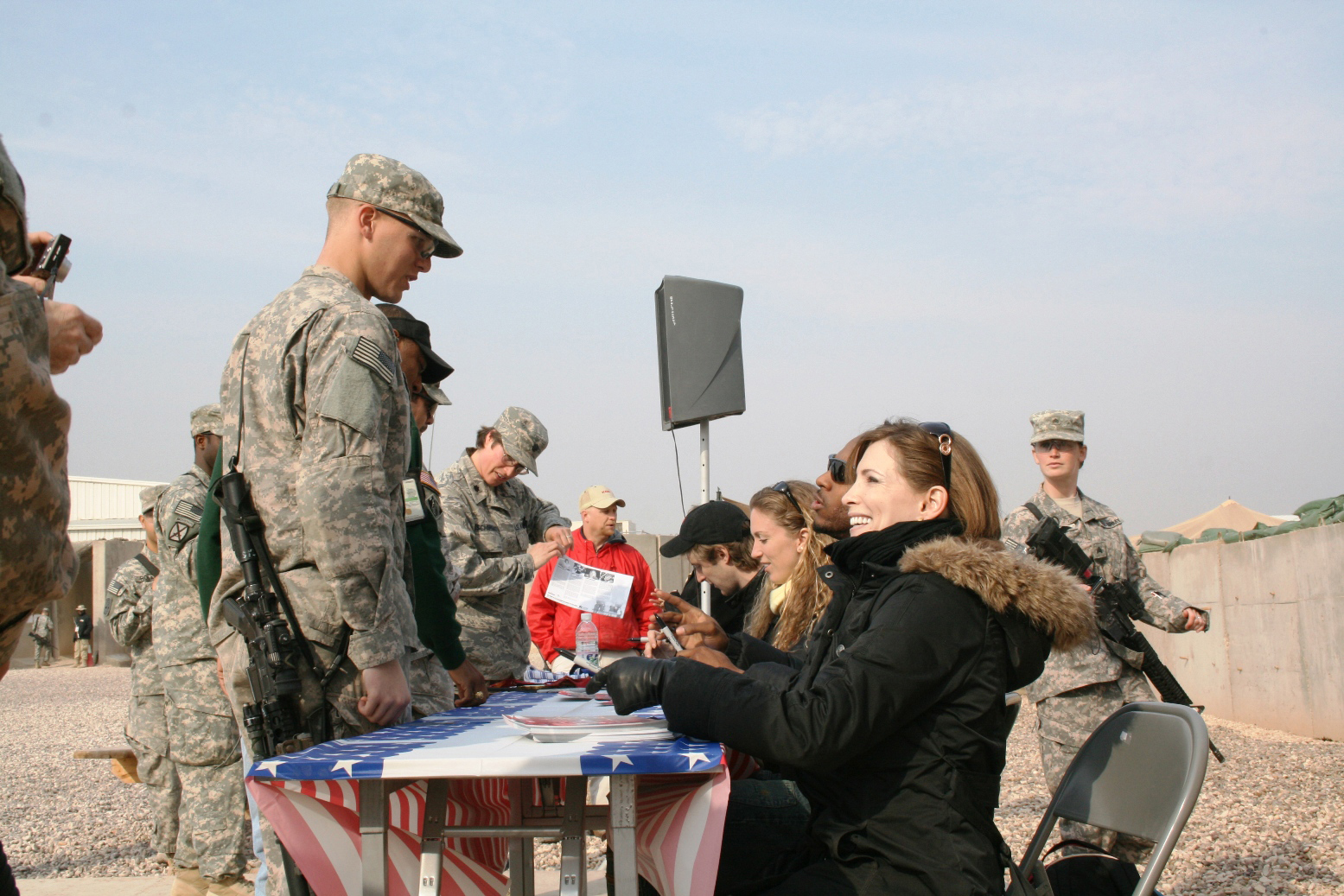 Shannon Miller and the other Olympic heroes sign autographs and talk to the Soldiers of Forward Operating Base Kalsu during their 12-day Olympic Hero’s Tour, Jan. 20.